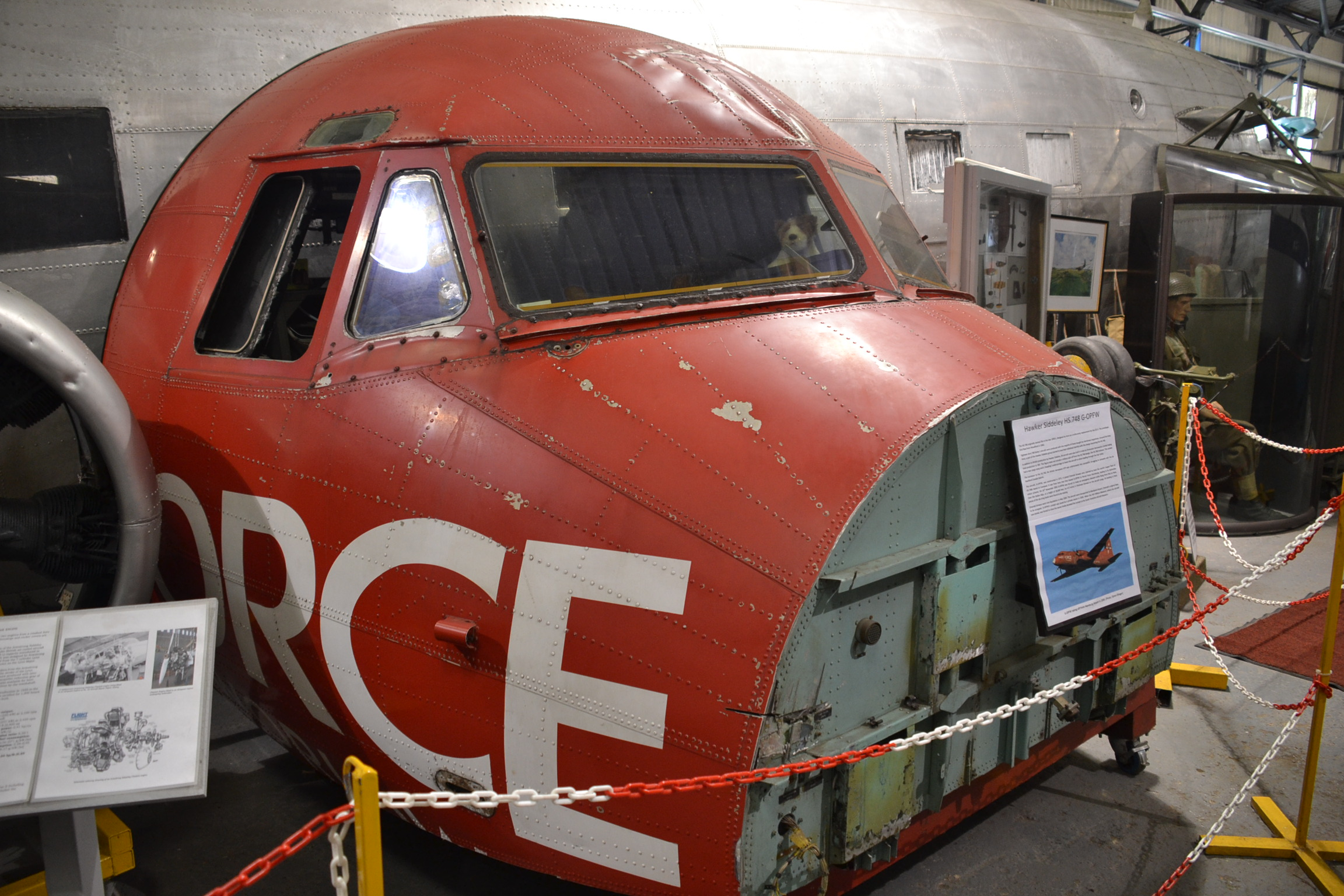 Cockpit section of Avro 748,formerly of Parcel Force,at the South Yorkshire Aircraft Museum,Doncaster,Yorks.,20/09/14.